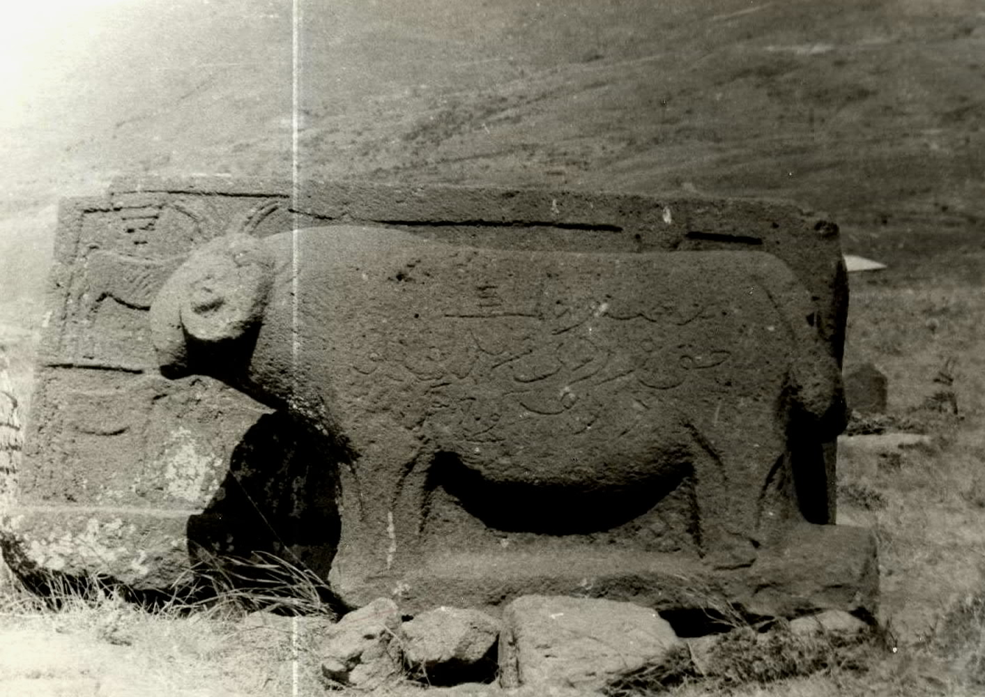 Gravestone in the form of the ram with the text in Arabic alphabet in the cemetry of the Urud village in Zangezur (Armenia)